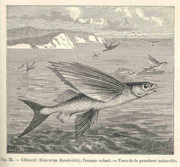 Exocet (Exocaelus rondeletii), Poisson volant Tiers de la grandeur naturelle Subject: Flyingfishes Tag: Fish